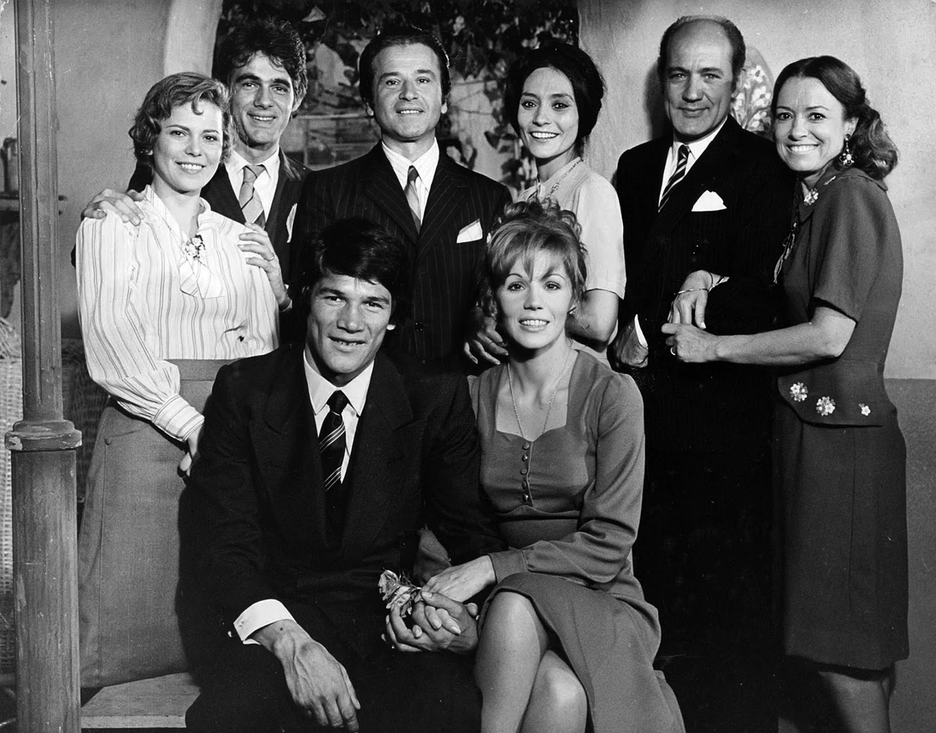 Scene on indoor with several characters of film La Mary, filmed in Argentina in 1974. Sitted: the actor Carlos Monzón and the actress Susana Giménez. Stand up and left to right, the following actors: Leonor Manso, Juan José Camero, Alberto Argibay, Dora Baret, Jorge Rivera López and Olga Zubarry.